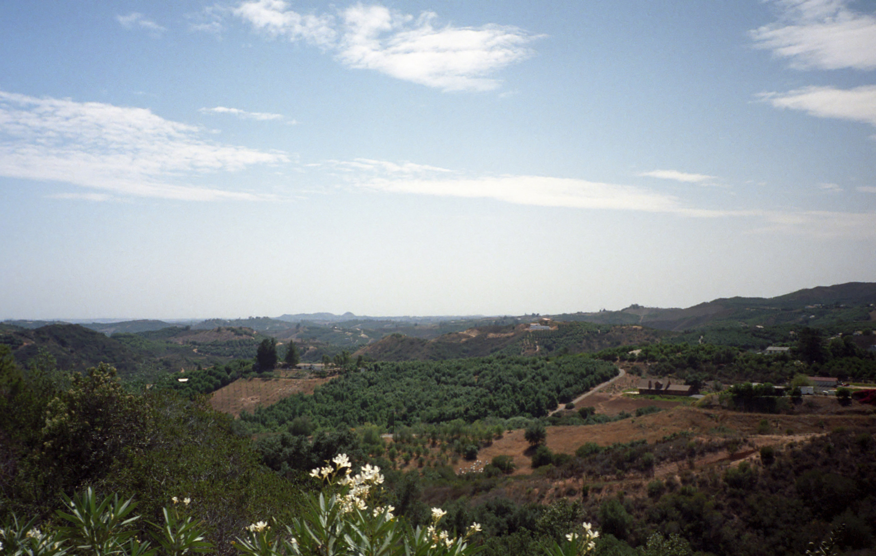 Rainbow, CA